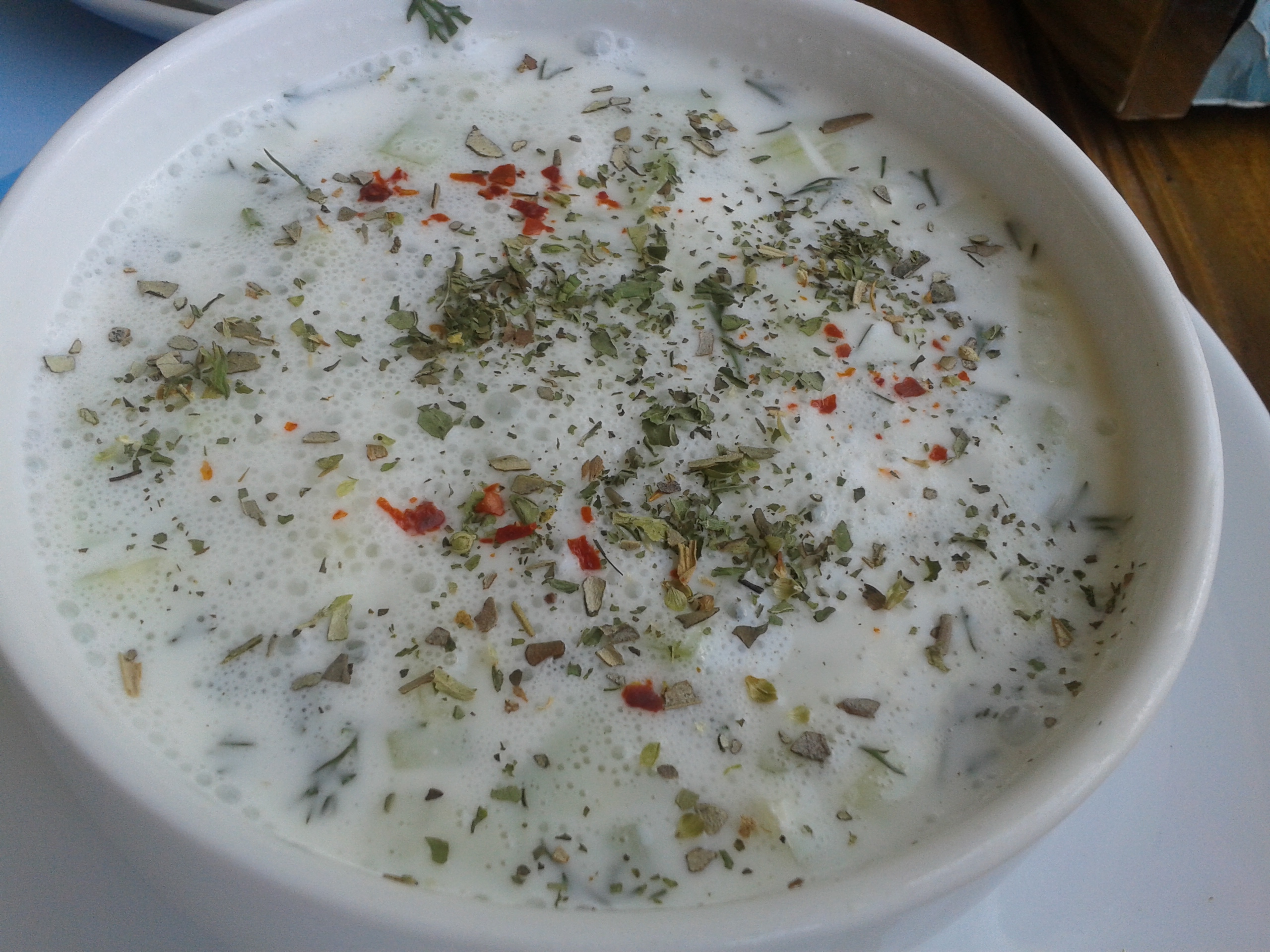 Cacık with spices on it: Oregano, "pul biber", dried menta leaves etc.